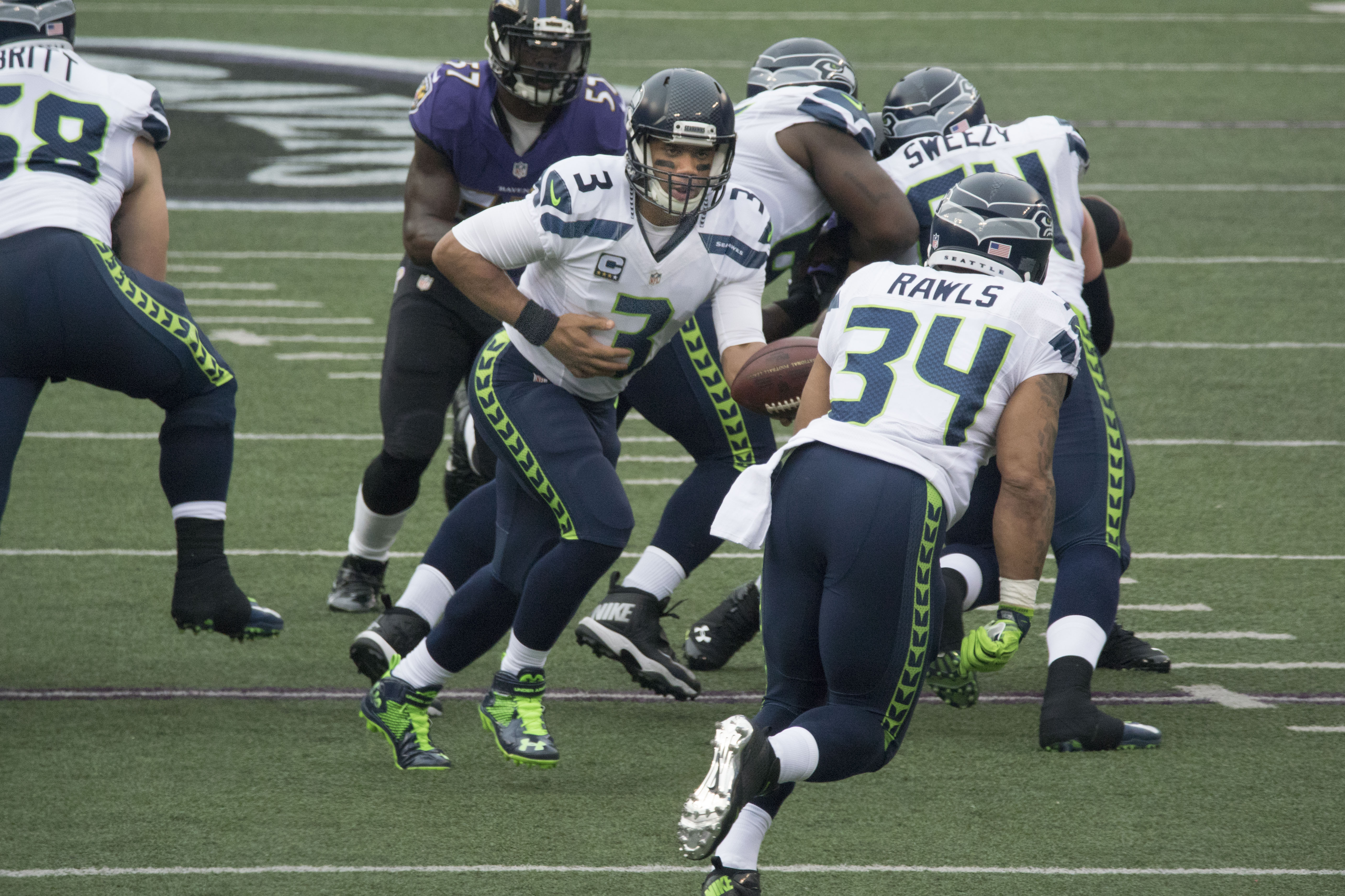 Seahawks at Ravens 12/13/15